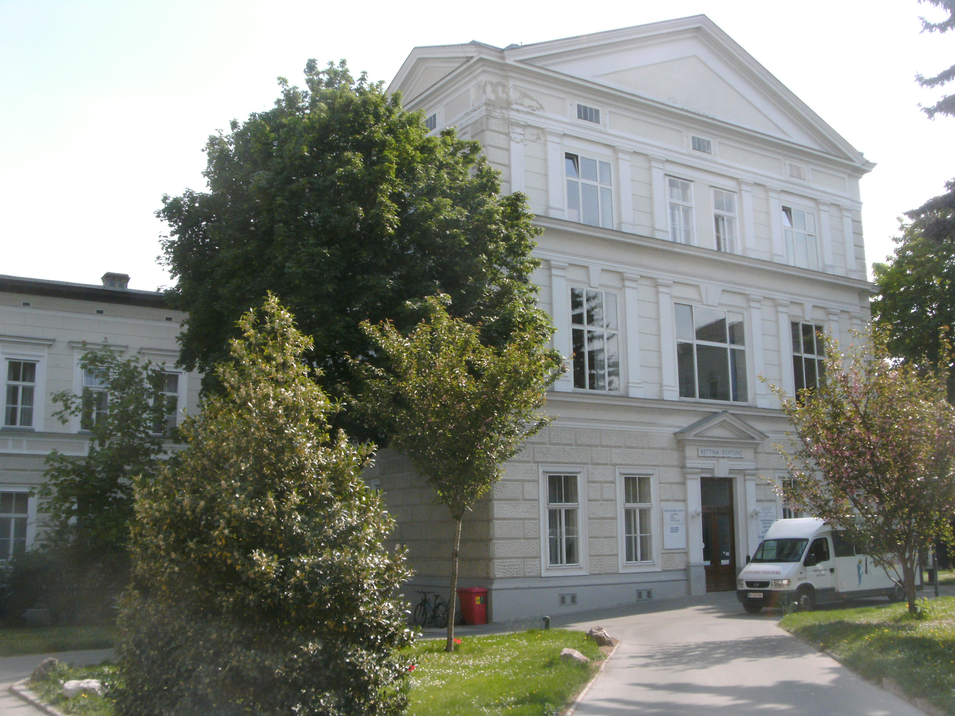 "Bettina-Stiftung" (i.e. Bettina charitable trust) pavillon in Kaiserin-Elisabeth-Spital (Empress Elisabeth Hospital) in Vienna's 15th district